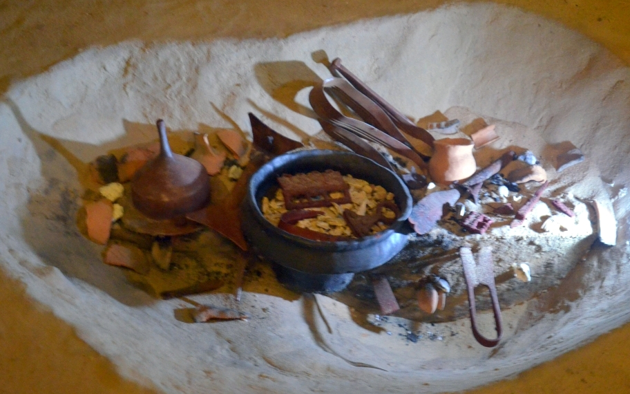 Vandalic cremation graves, 2nd c. AD